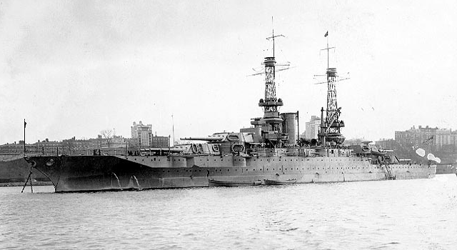 USS Mississippi (BB-41) anchored off New York City in 1919. U.S. Naval Historical Center Photograph # NH 60653.